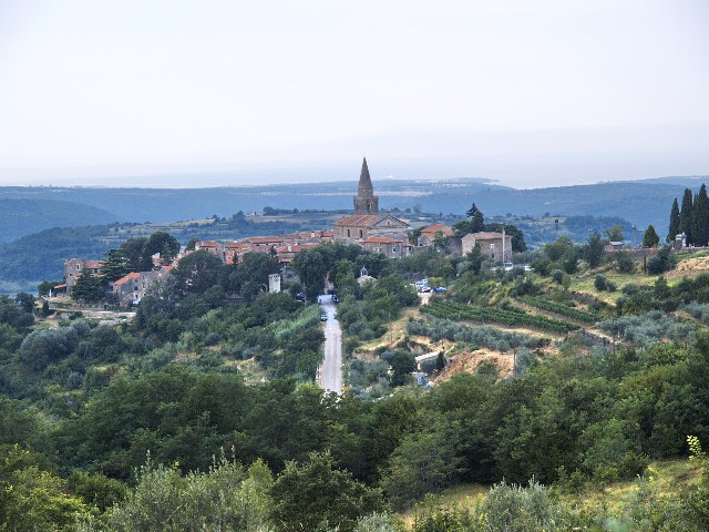 Town of Grožnjan, Istria, Croatia; Author: Vladimir Marin; Taken: 2006